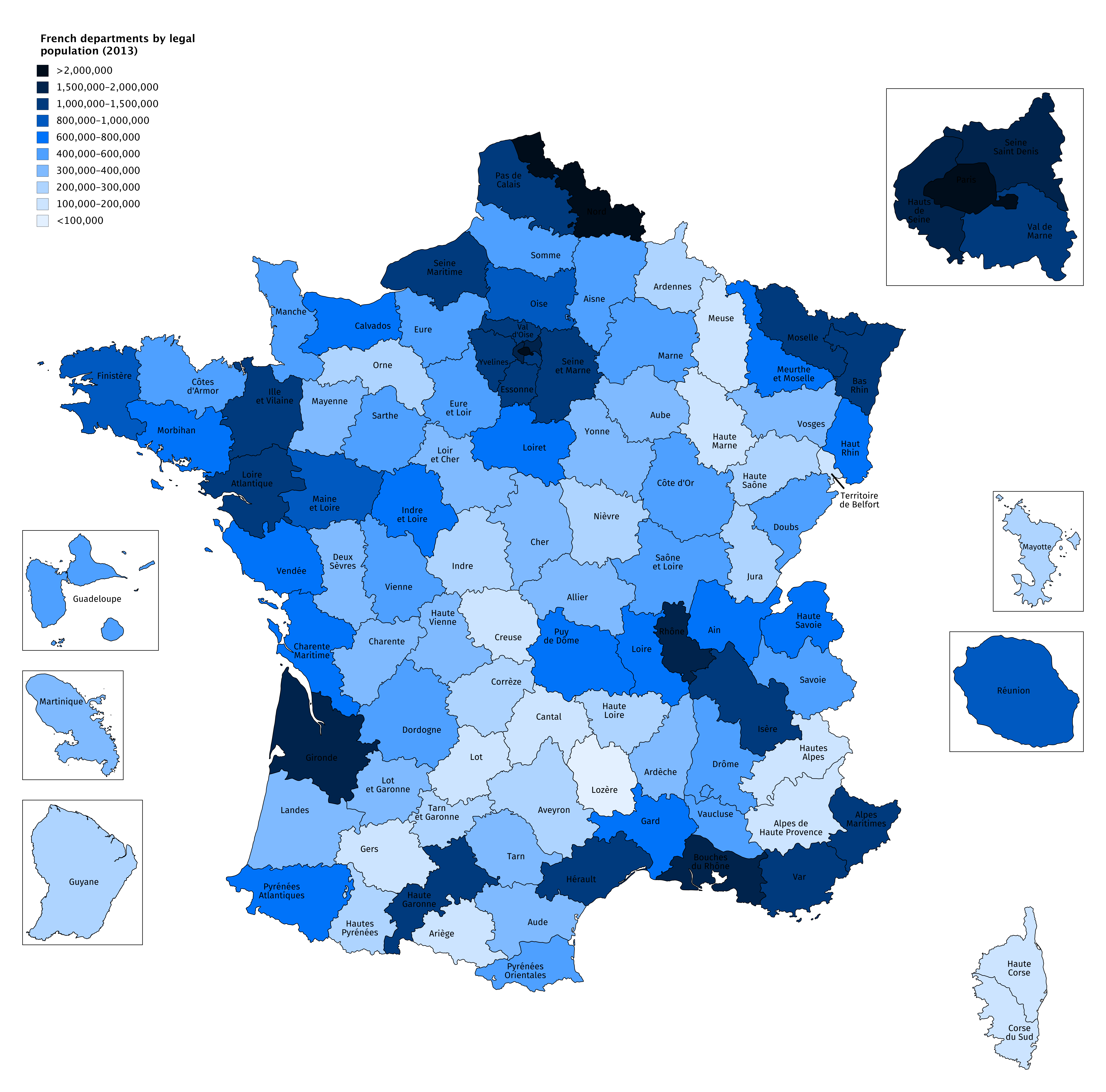 A choropleth map showing the population of French departments (including overseas) by legal population in 2013, based on data from the National Institute of Statistics and Economic Studies] of France.